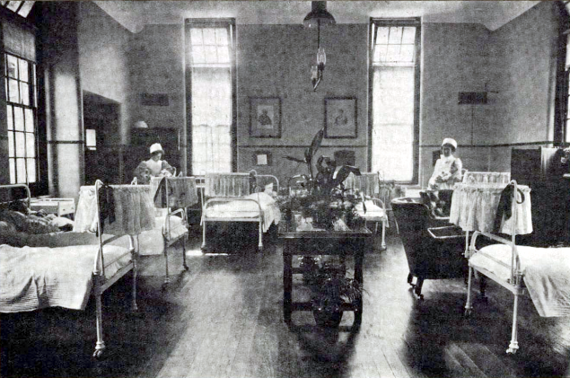 An post-natal ward in well-respected English hospital c1908